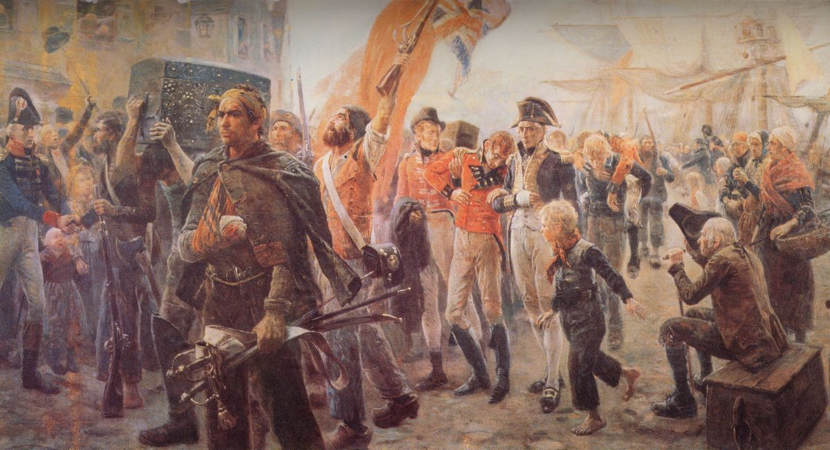 French privateers taking prizes and British prisoners. 1806, by Maurice Orange